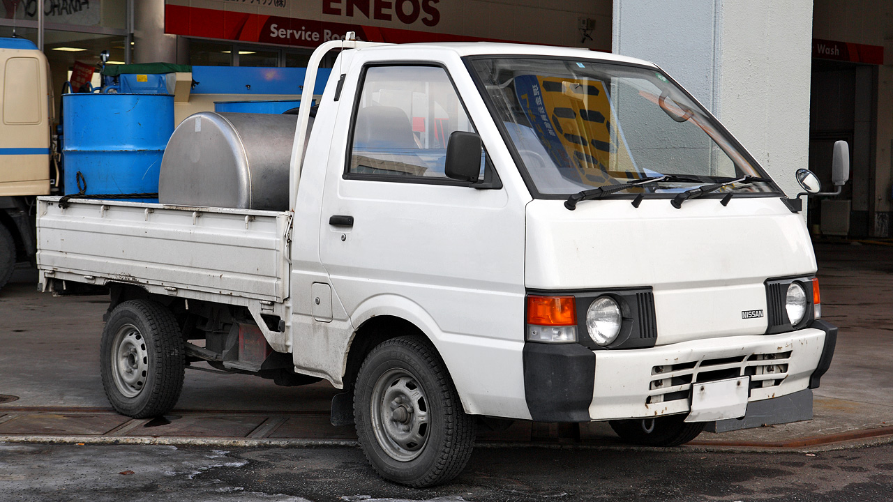 Nissan Vanette Truck (C22)